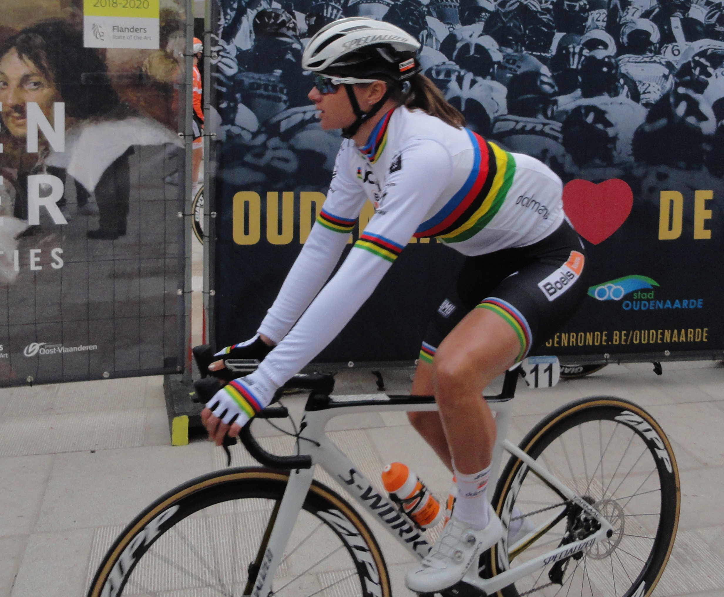 Chantal Blaak at the start of RVV2018.